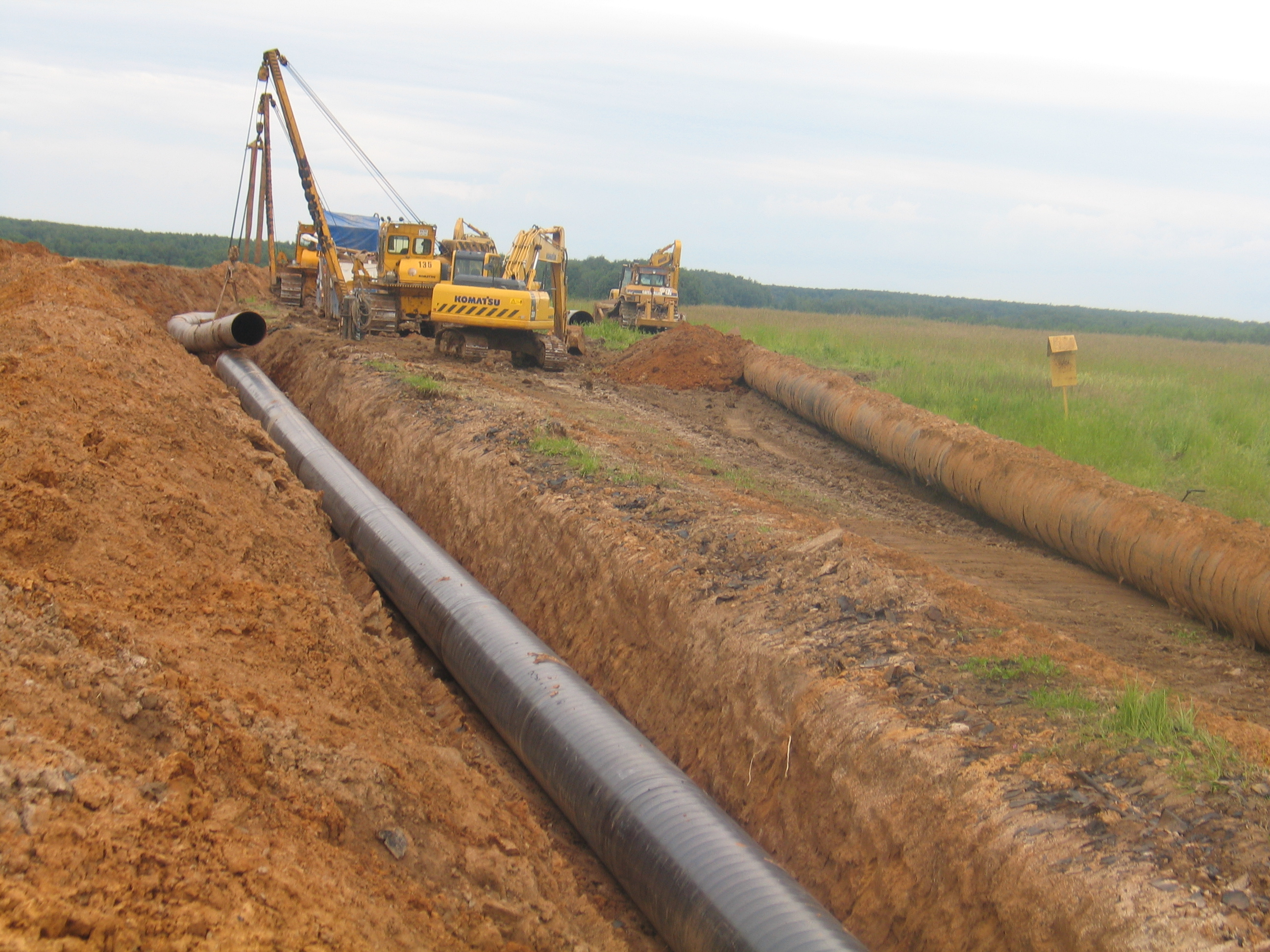 Both old pipe (which will be soon removed for scrap metal) and new pipe—already in the trench—are visible.